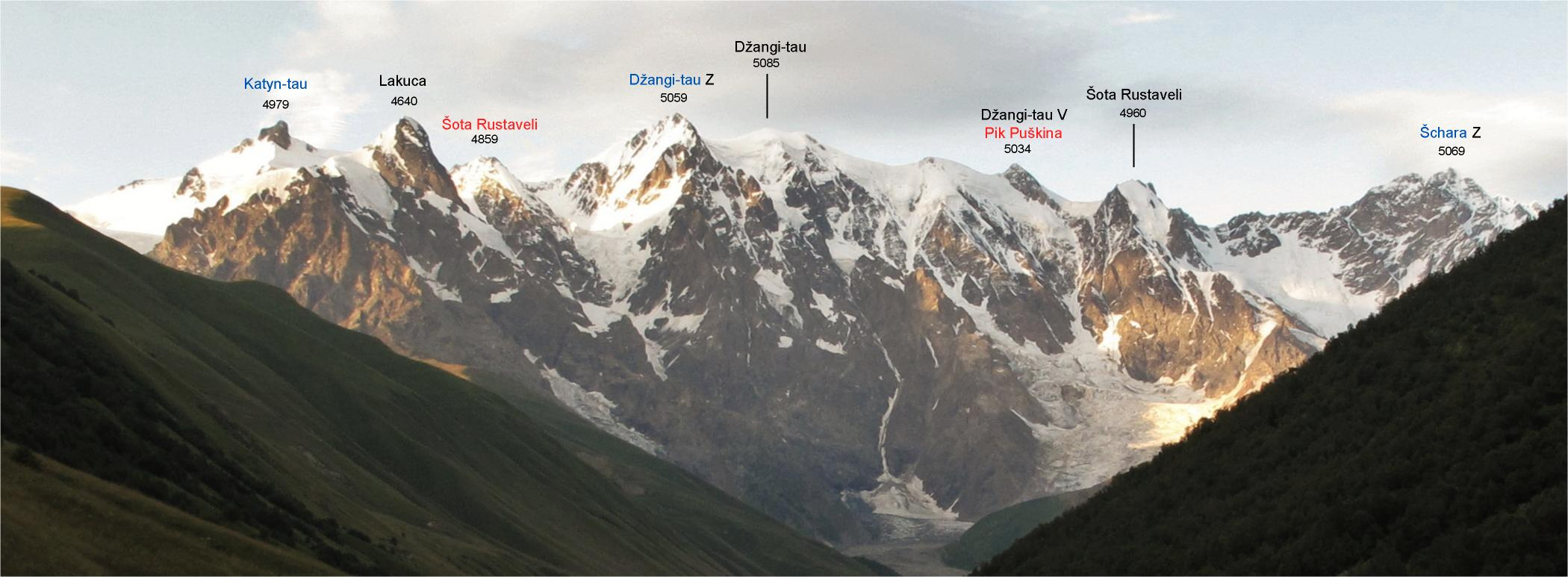 Main Caucasus Ridge panorama between Katyn-Tau and Shkara peaks from georgian side. Black: Names from russian guides (different sources - for example Naumov (1985): Gory Svanetii). Red: Names from soviet topographic maps. Blue: Agreement between guides and topographic maps. Heighs according to